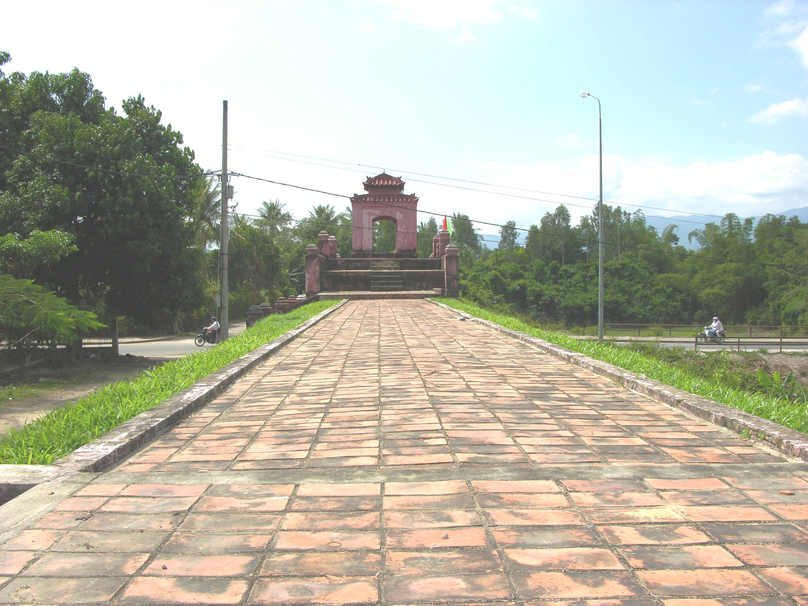 the Dien Khanh western gate taken from the tower wall